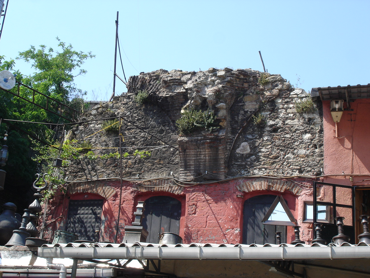 Byzantine ruins in the Istanbul Grand Bazaar. Picture by: Giovanni Dall'Orto, May 29 2006.